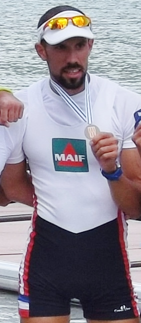 Sight of four French rowers showing to the (mostly French) public their bronze medal, during the 2015 World Rowing Championships, on the lac d'Aiguebelette lake, in Savoie, France.